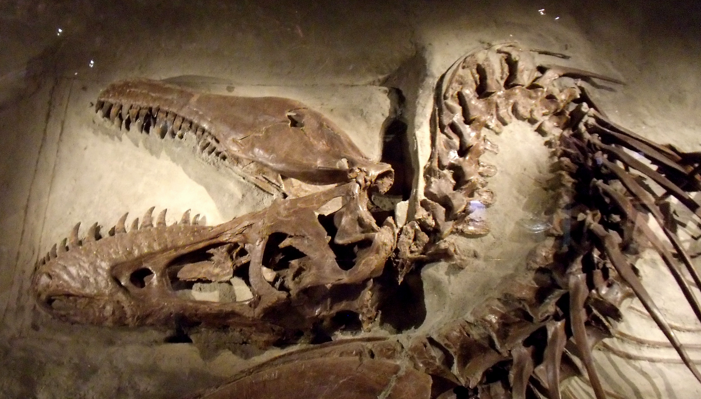 Juvenile carnivorous dinosaur said to be the best and most complete study specimen of its kind in the world. One of the superlative displays of natural art in the Lords of the Land gallery, Royal Tyrrell Museum.